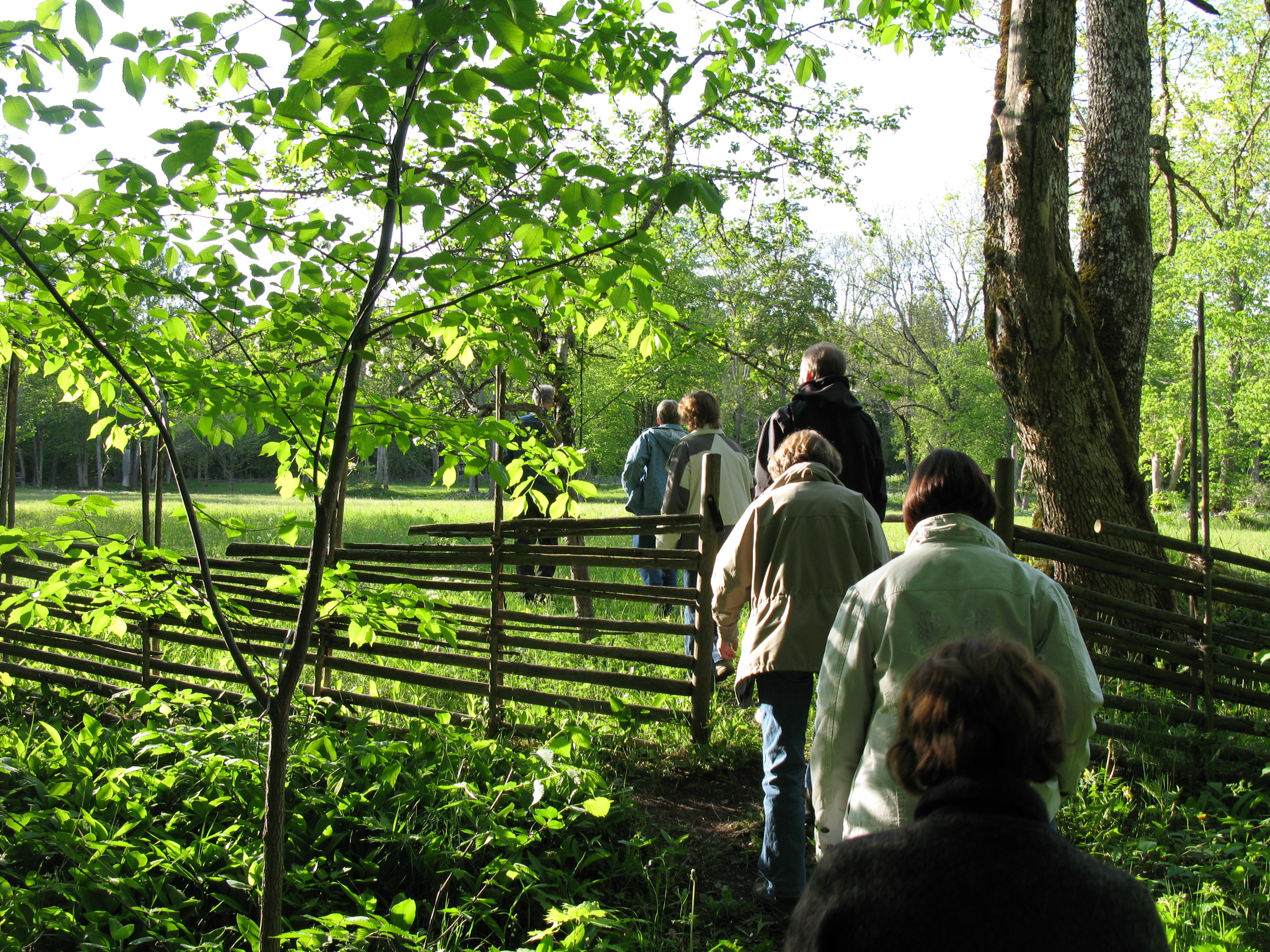 The national park in Garphyttan, Örebro, Sweden